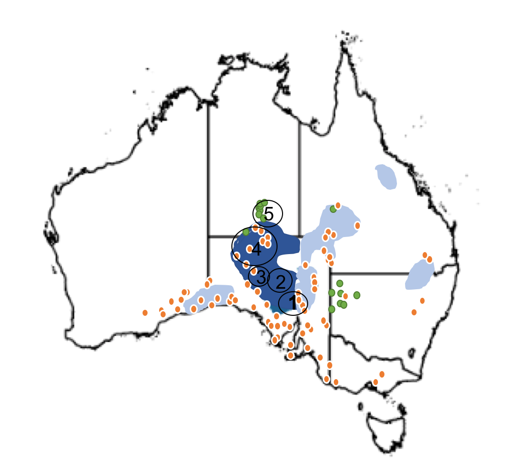 The primary extant population of the plains rat divided into five main geographical zones.